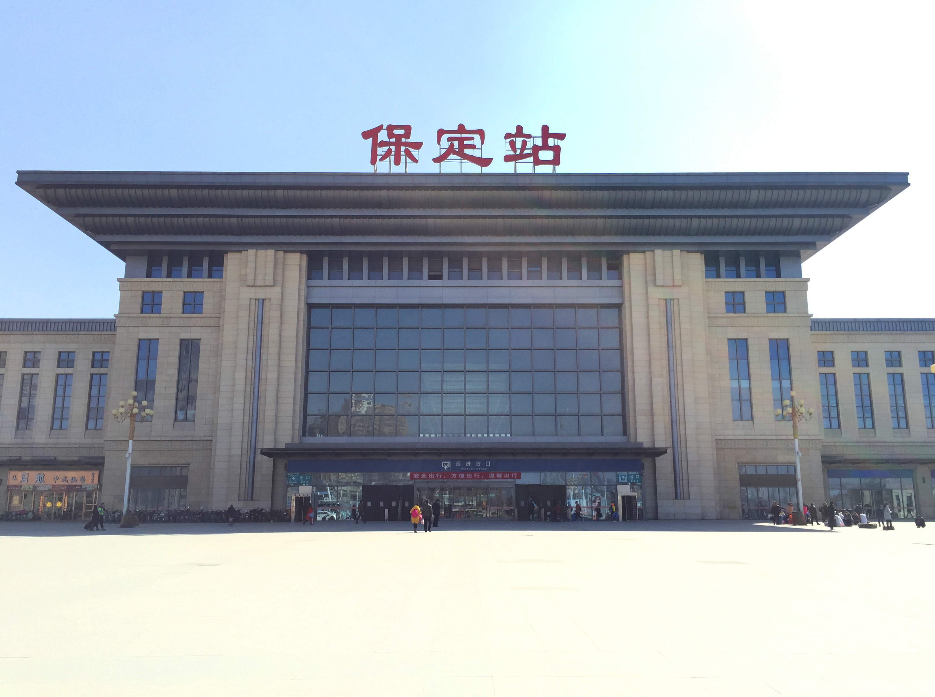 T168 has already delayed, and I managed to enter the station.